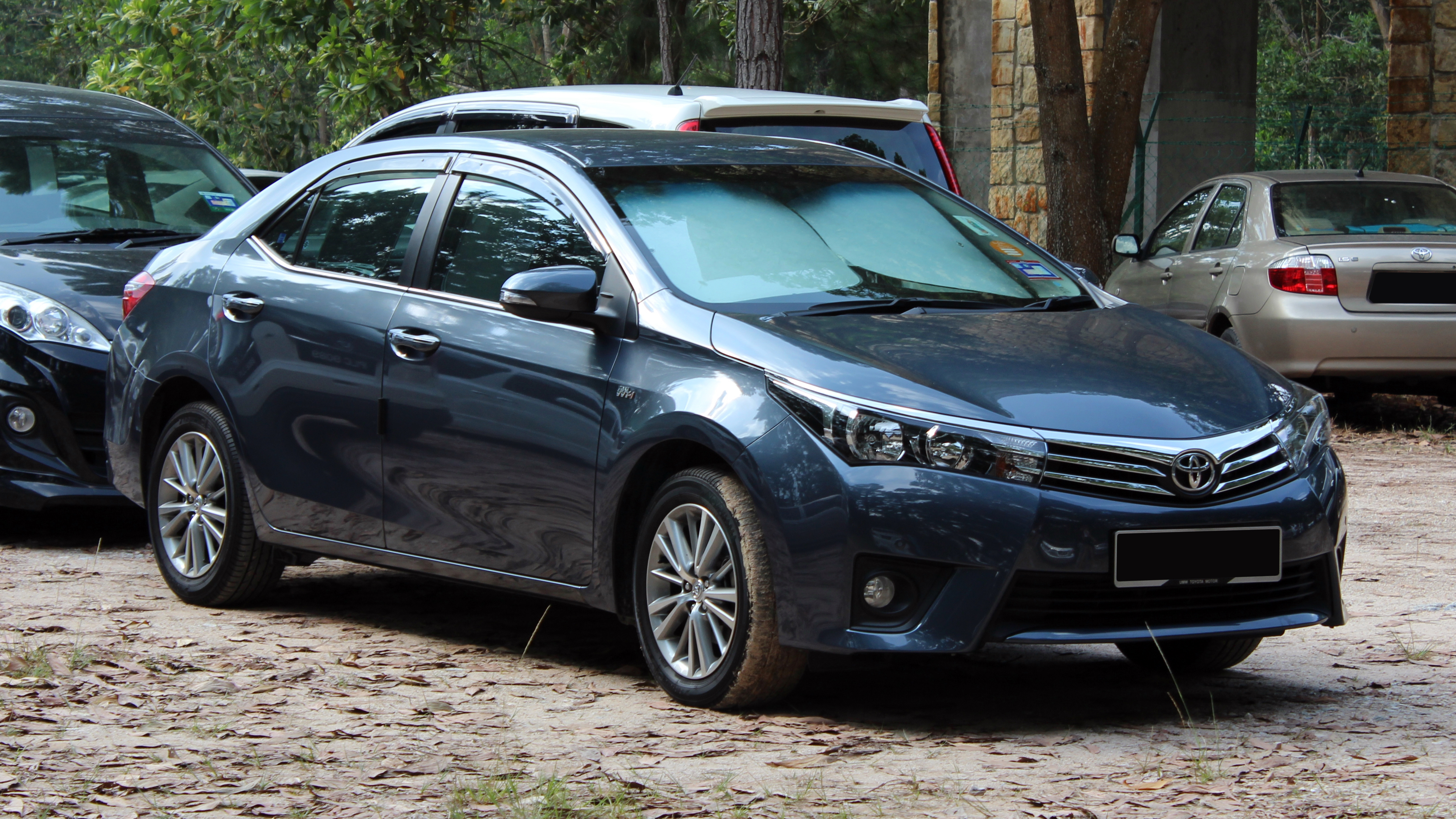 2014 Toyota Corolla Altis 2.0 G (ZRE173R)